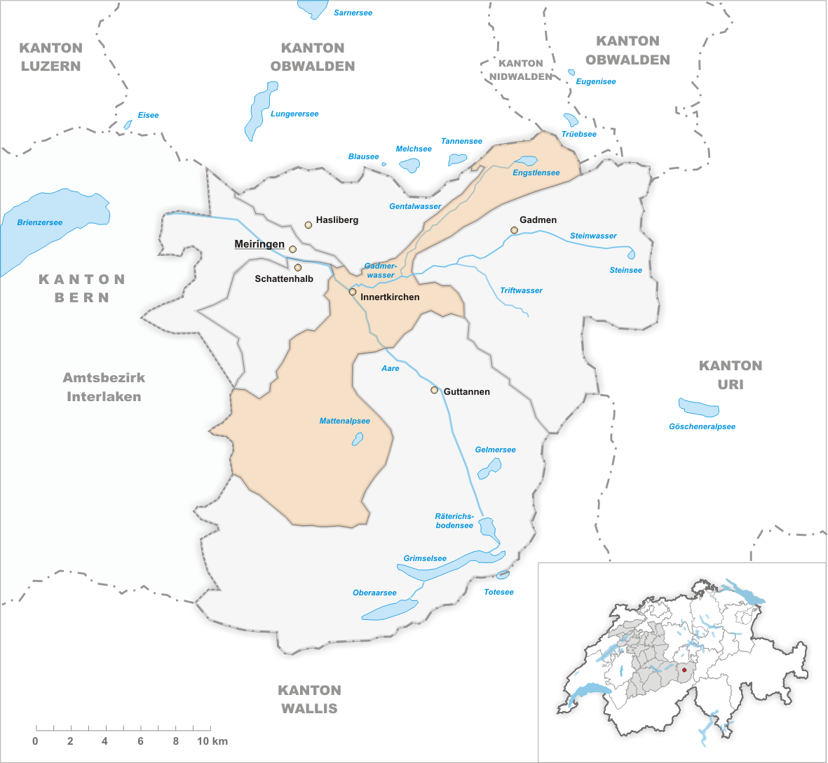 Municipality Innertkirchen